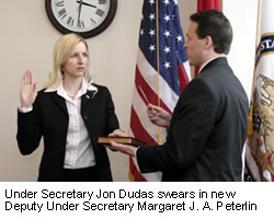 Margaret Peterlin